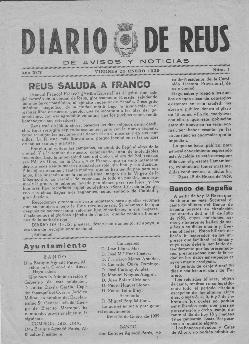 Weekly disappeared Free Rights